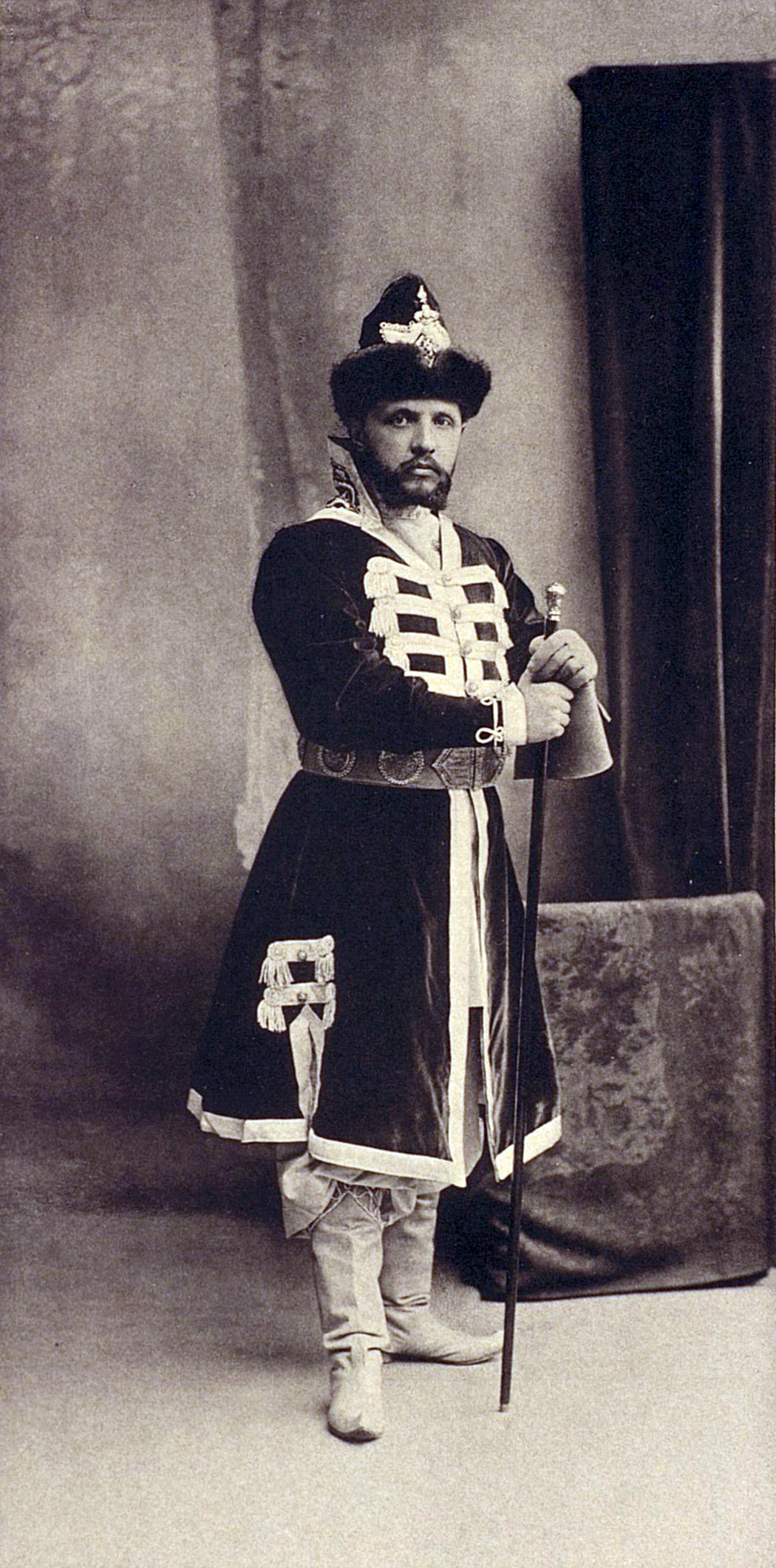 Vladimir Alexeevich Musin-Pushkin